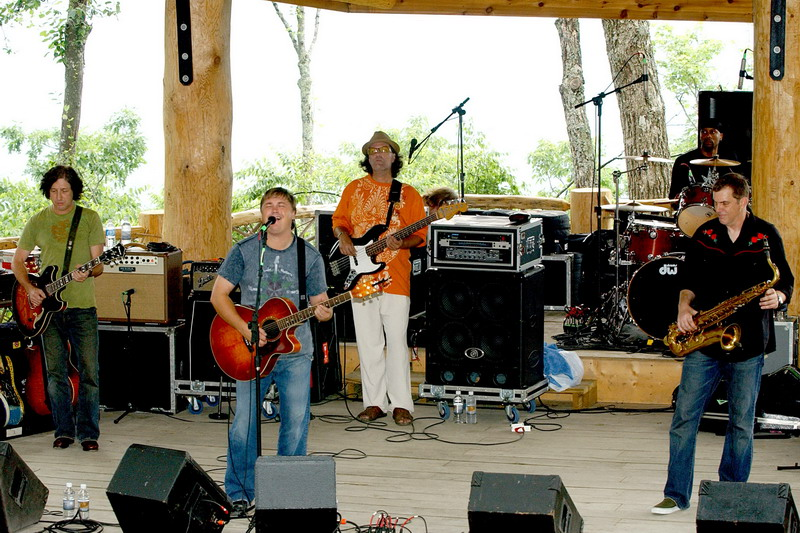 Current Lineup of Edwin McCain Band as of 7/7/07. (Minus Peter Riley)